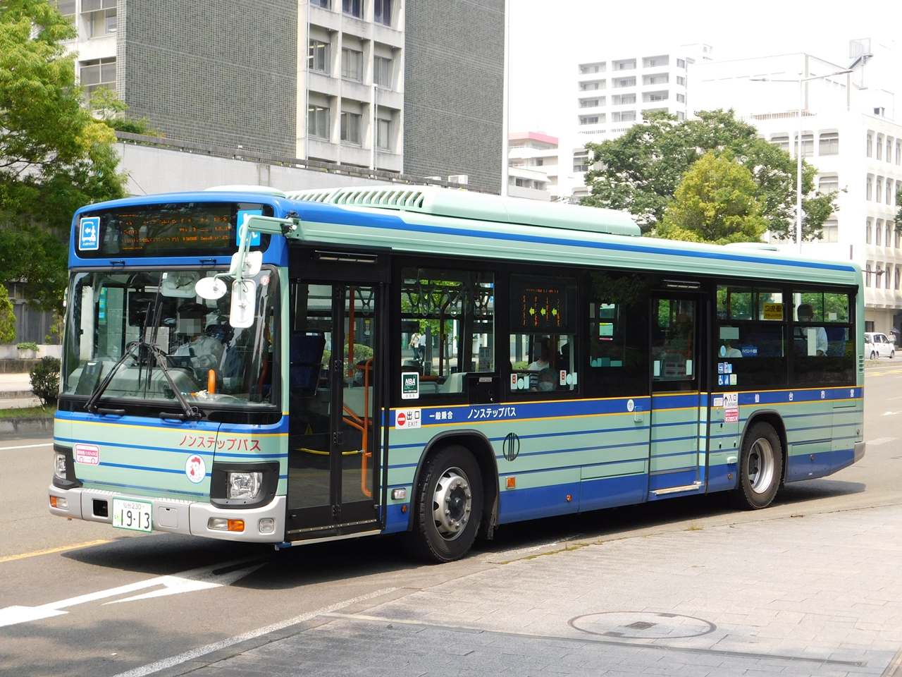 Sendai city bus Isuzu Erga (2PG-LV290N3)